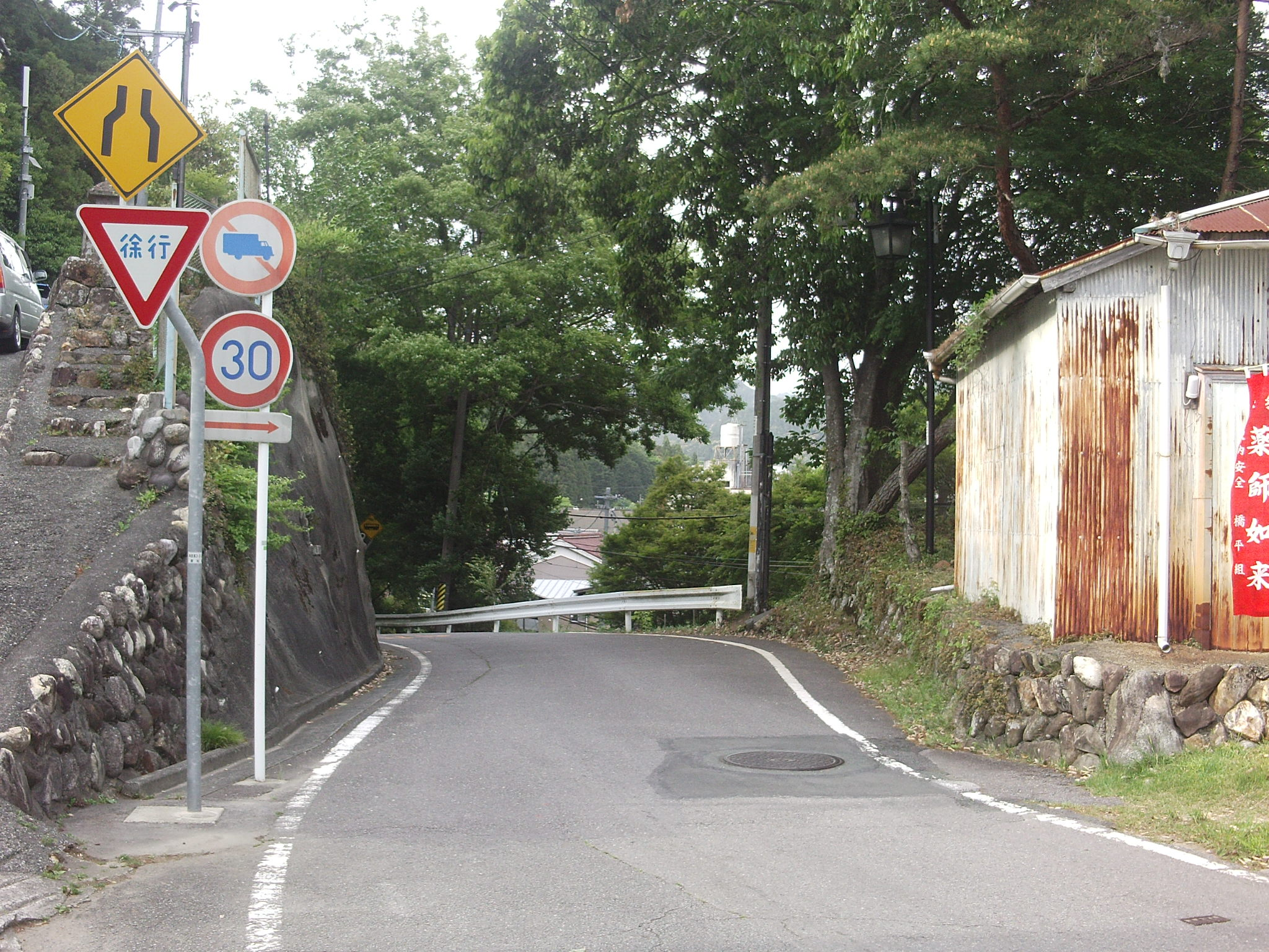 Japanese traffic signs sample. Aichi prefectural road No.439 in Toyooka, Shinshiro, Aichi.